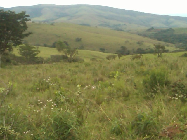 Rural area in Andrelândia, Minas Gerais, Brazil.